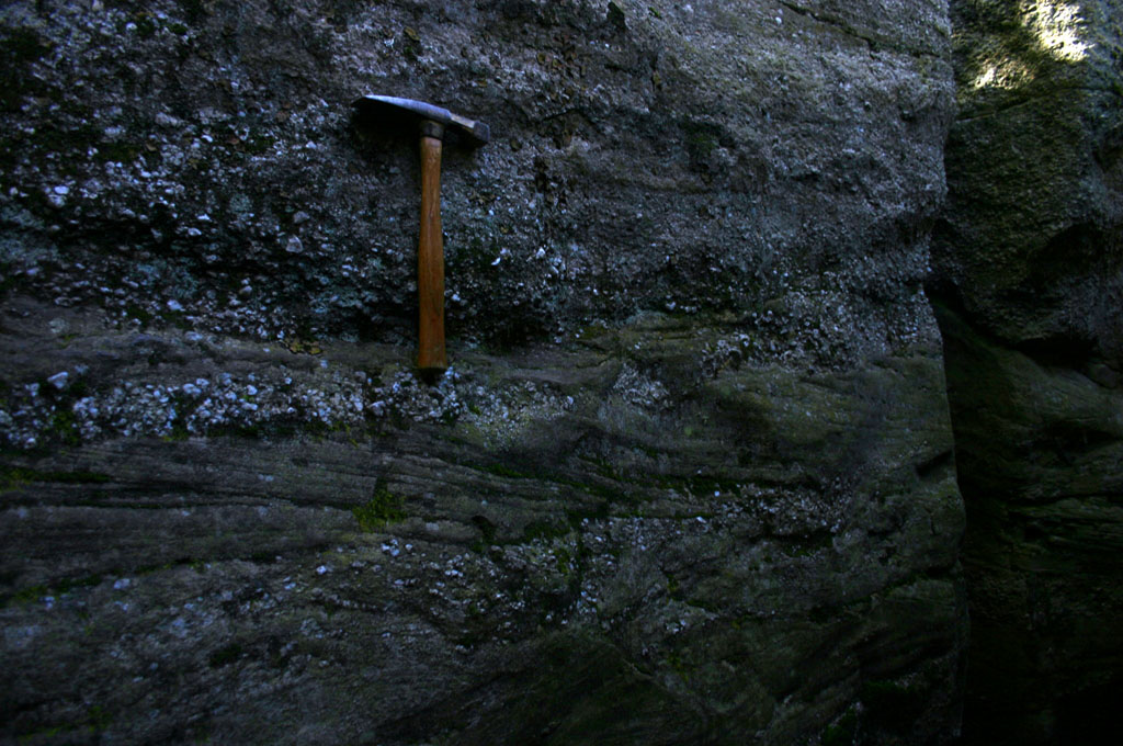 Pottsville Formation in a rock city at Worlds End State Park, Pennsylvania. Sandstone and conglomerate. Rock hammer for scale. Taken 2006.